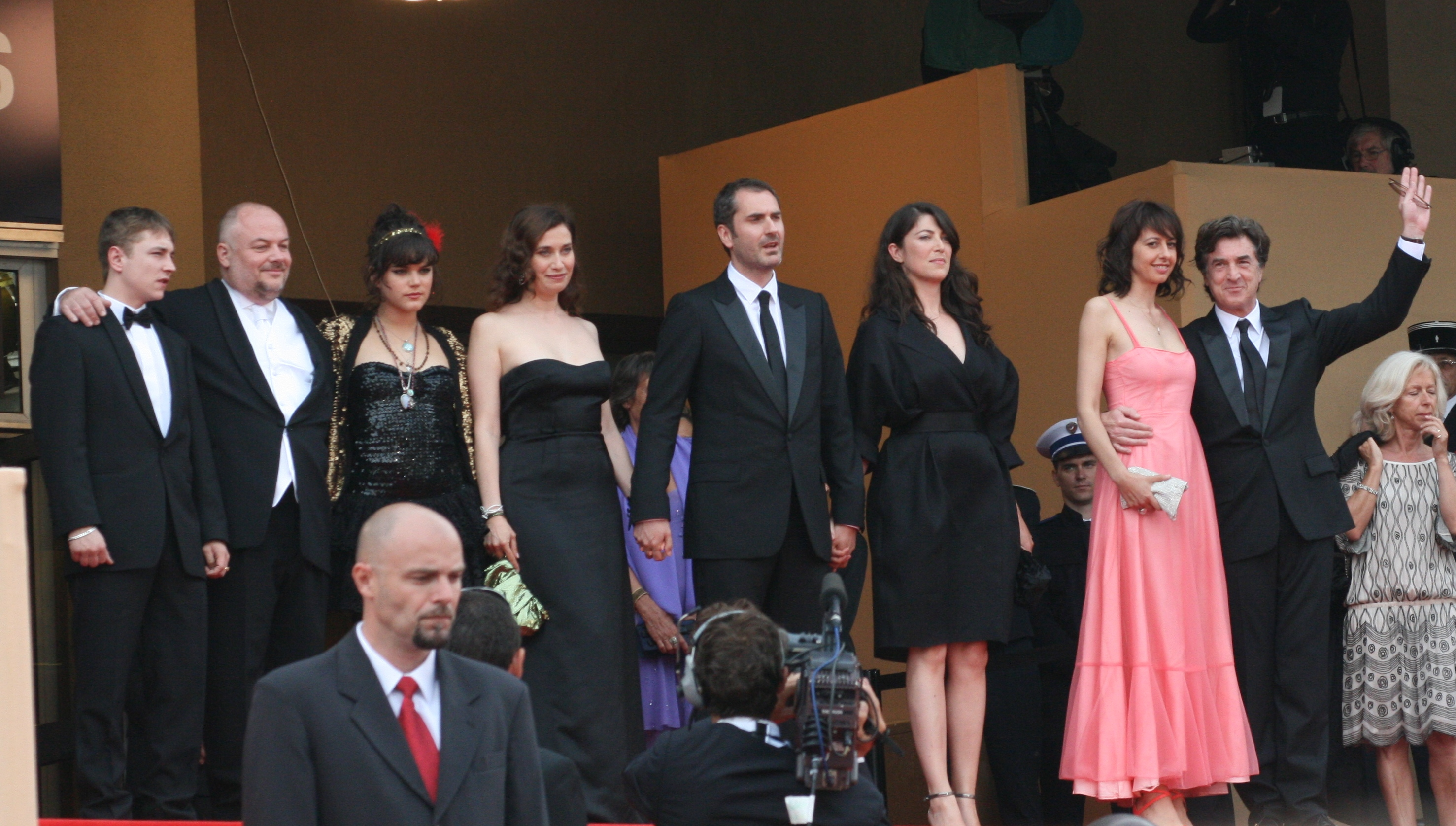 Presentation of film À l'origine at Cannes Film Festival 2009. From left to right, Vincent Rottiers, Brice Fournier, Stéphanie Sokolinski, Emmanuelle Devos, Xavier Giannoli, ?, Valérie Bonneton, François Cluzet (who raise the hand)